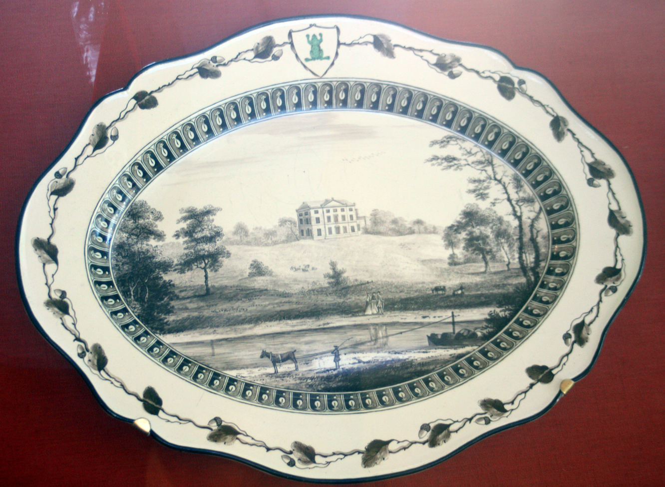 A platter from the Green Frog Service by Wedgwood. The house is Etruria Hall, Josiah Wedgwood's own house near the factory